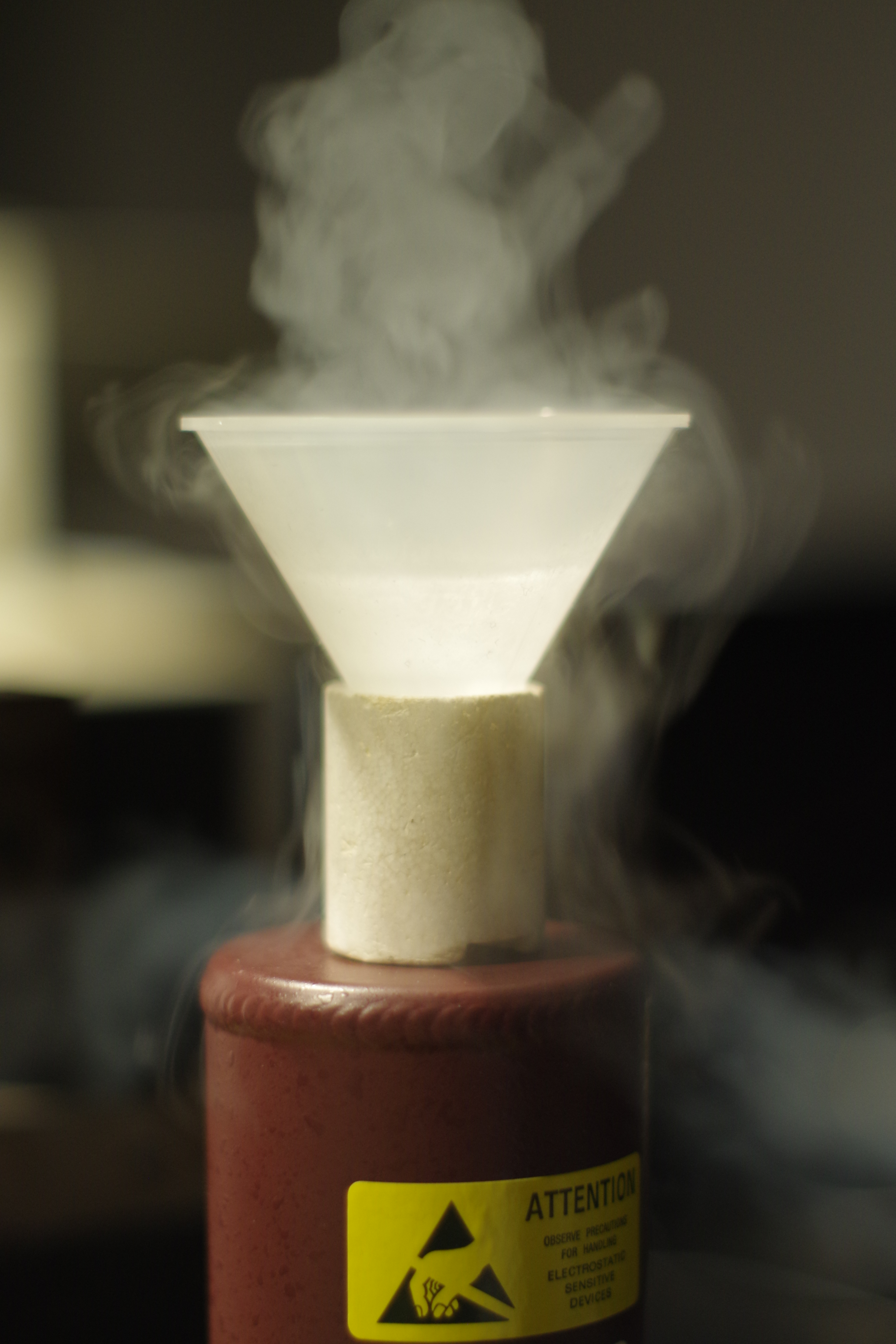 Filling an infrared detector with liquid nitrogen.